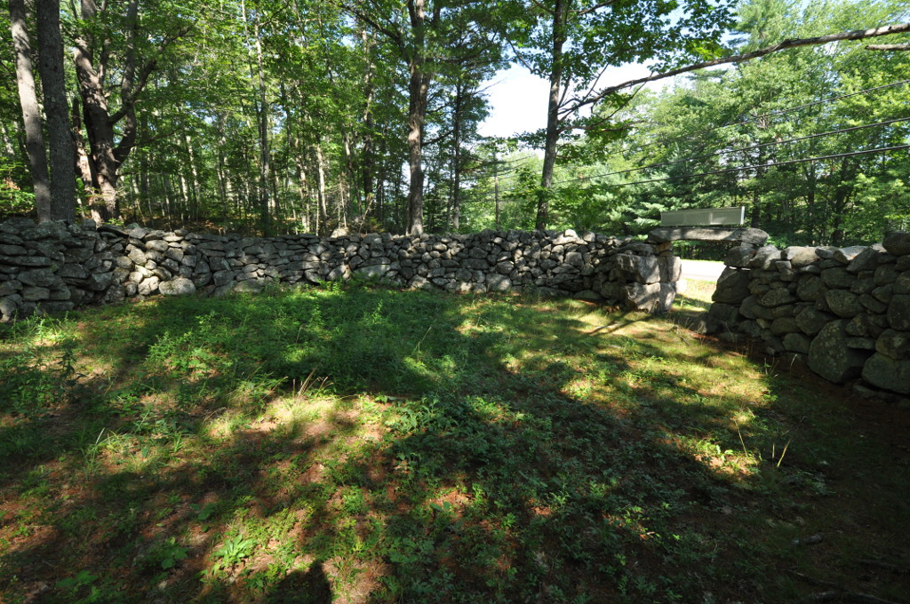 Jefferson Cattle Poud, Jefferson, Maine.